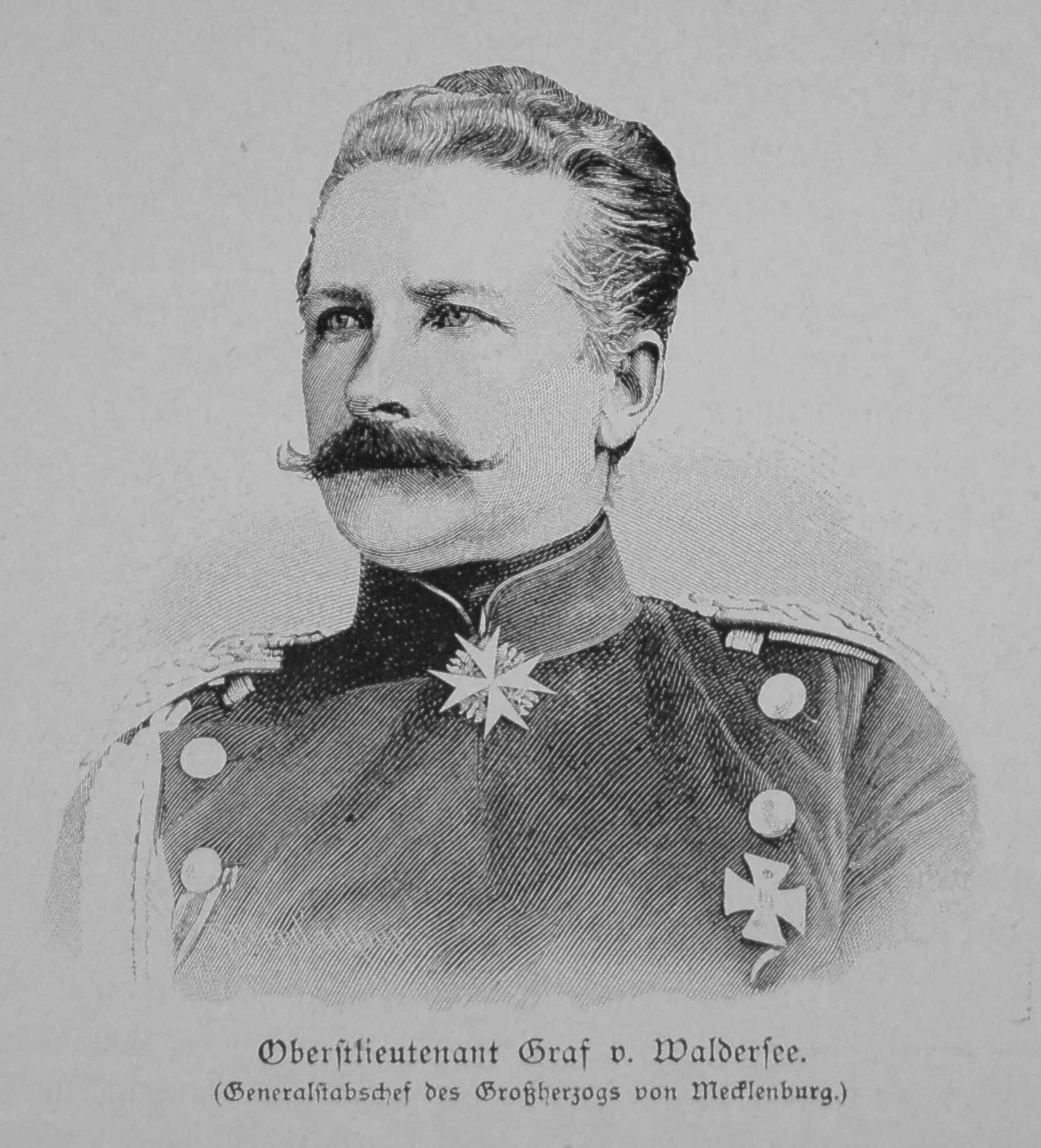 lieutenant colonel earl von Waldersee